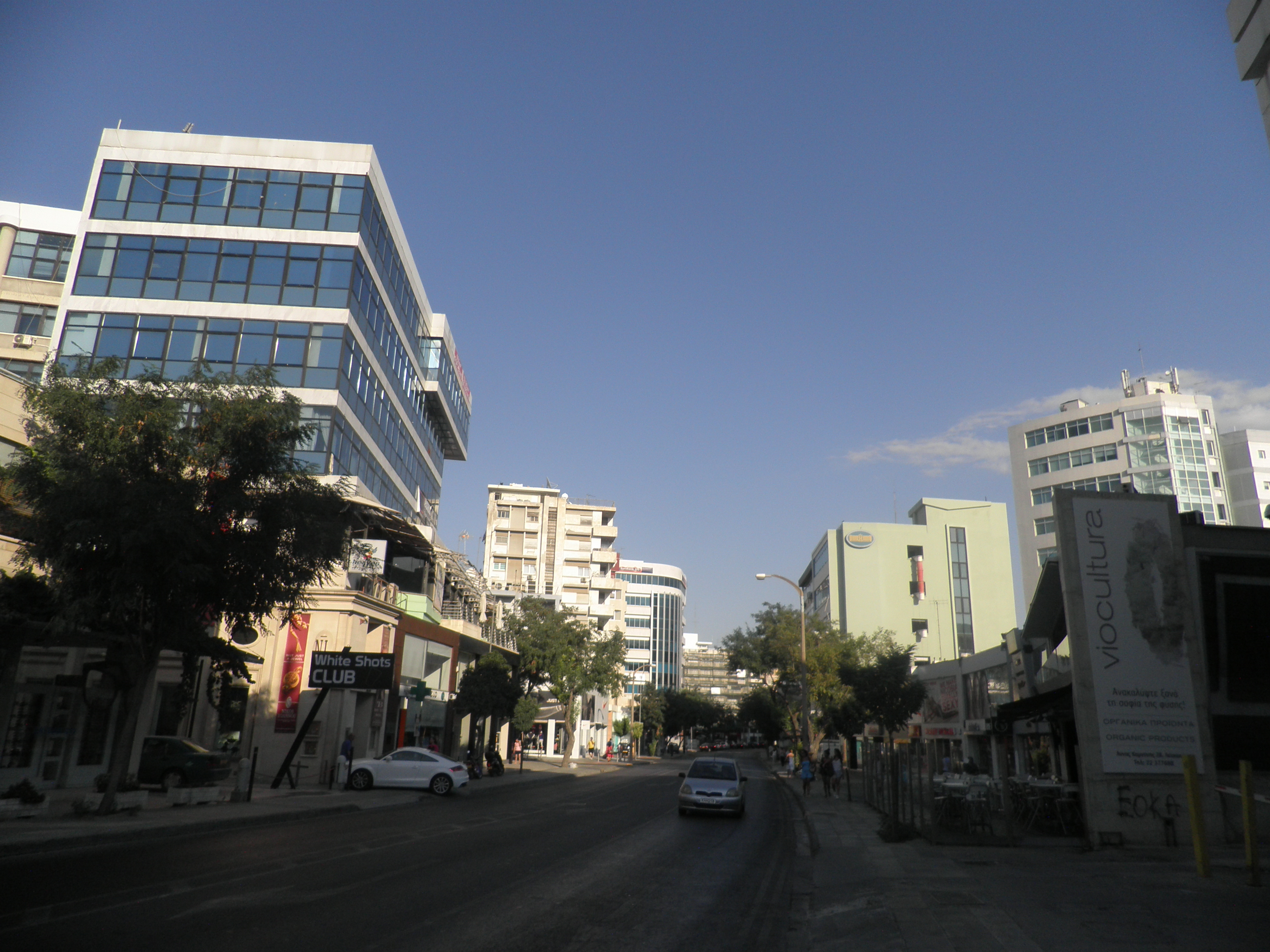 Makariou Avenue, Nicosia, August 2011